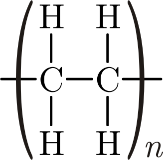 polyethylene molecule